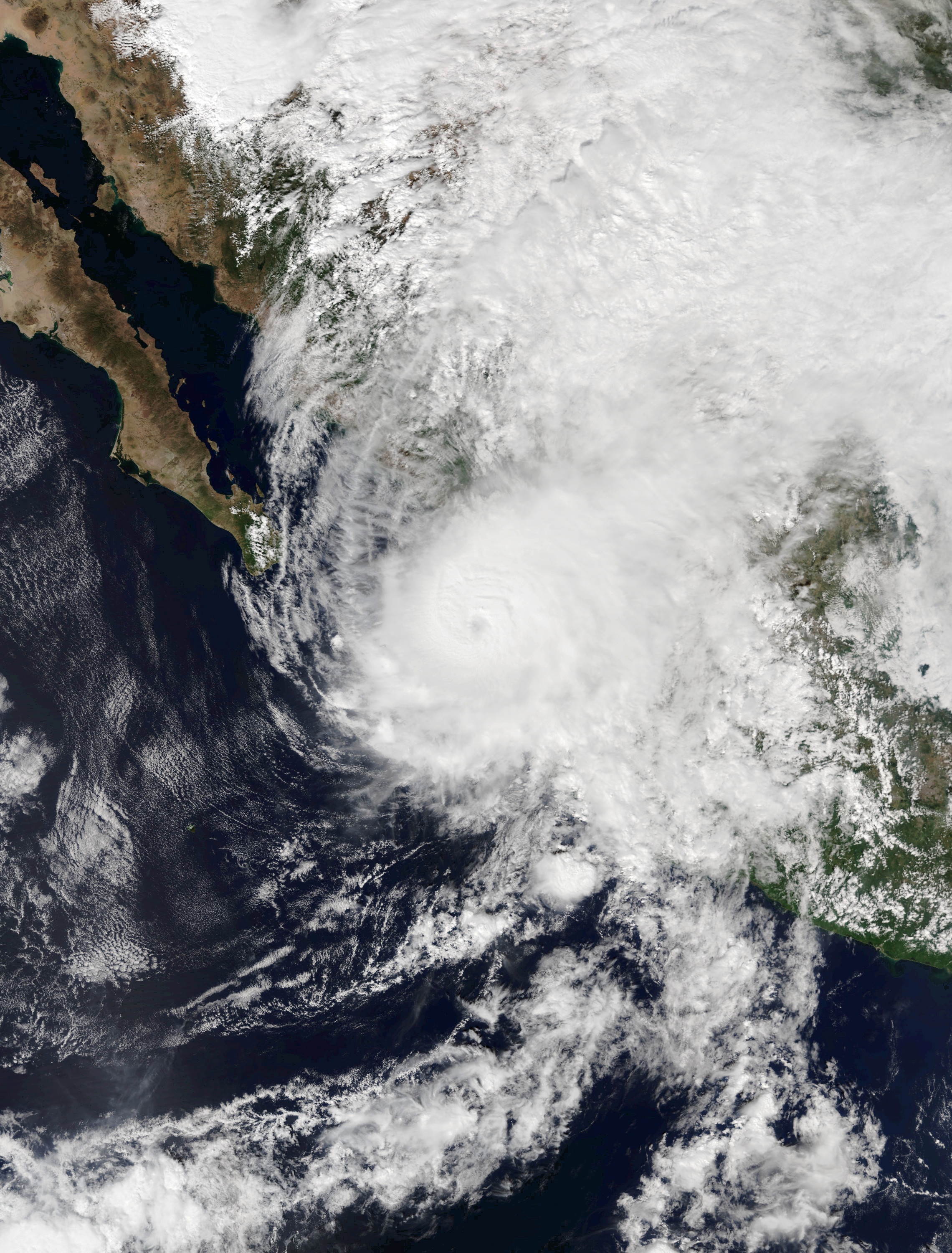 Hurricane Willa near landfall in Mexico as a Category 3 hurricane on October 23, 2018